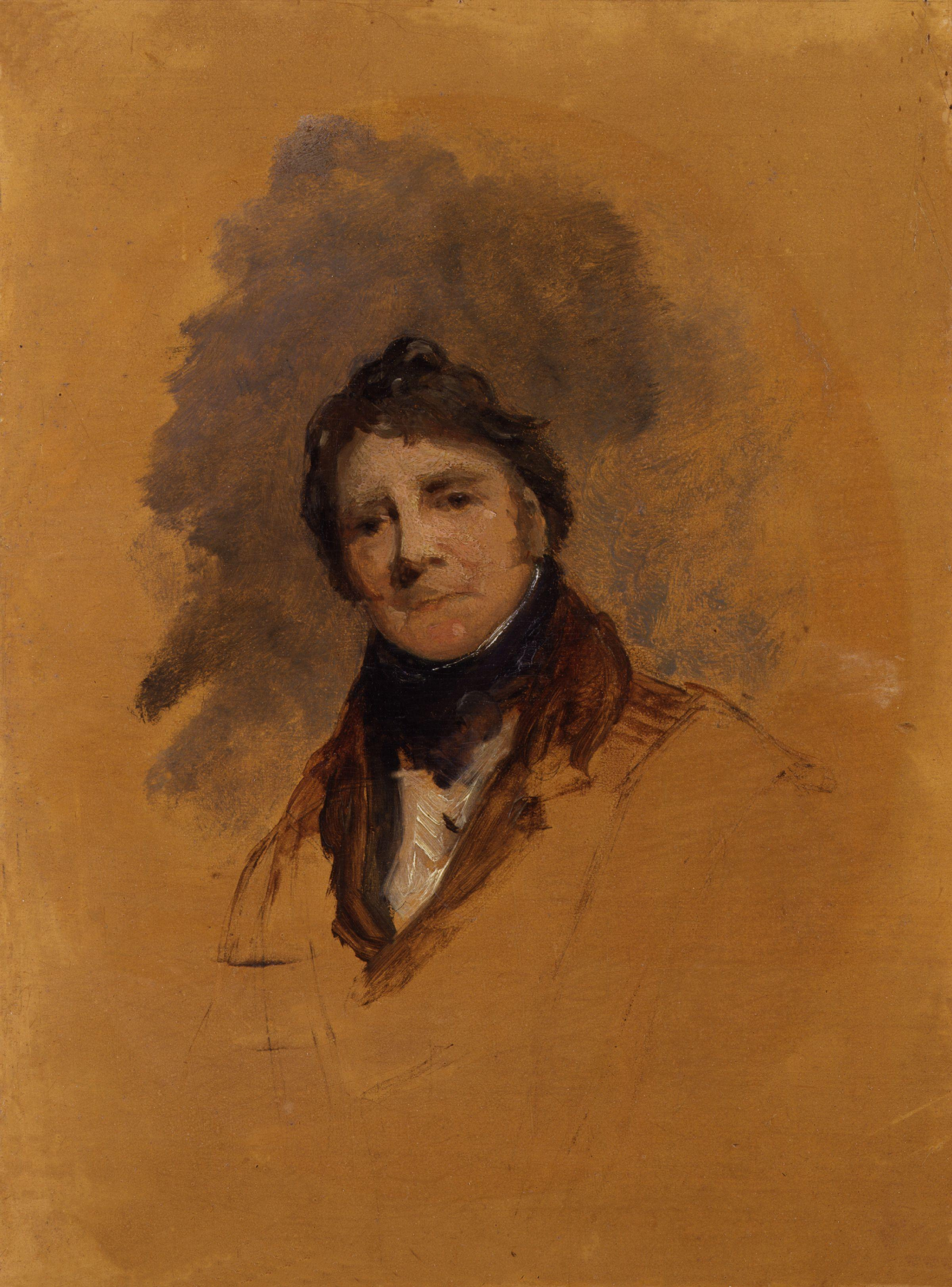 Thomas Grosvenor, by Robert Bowyer (died 1834). All images in this batch have been confirmed as author died before 1939 according to the official death date listed by the NPG.